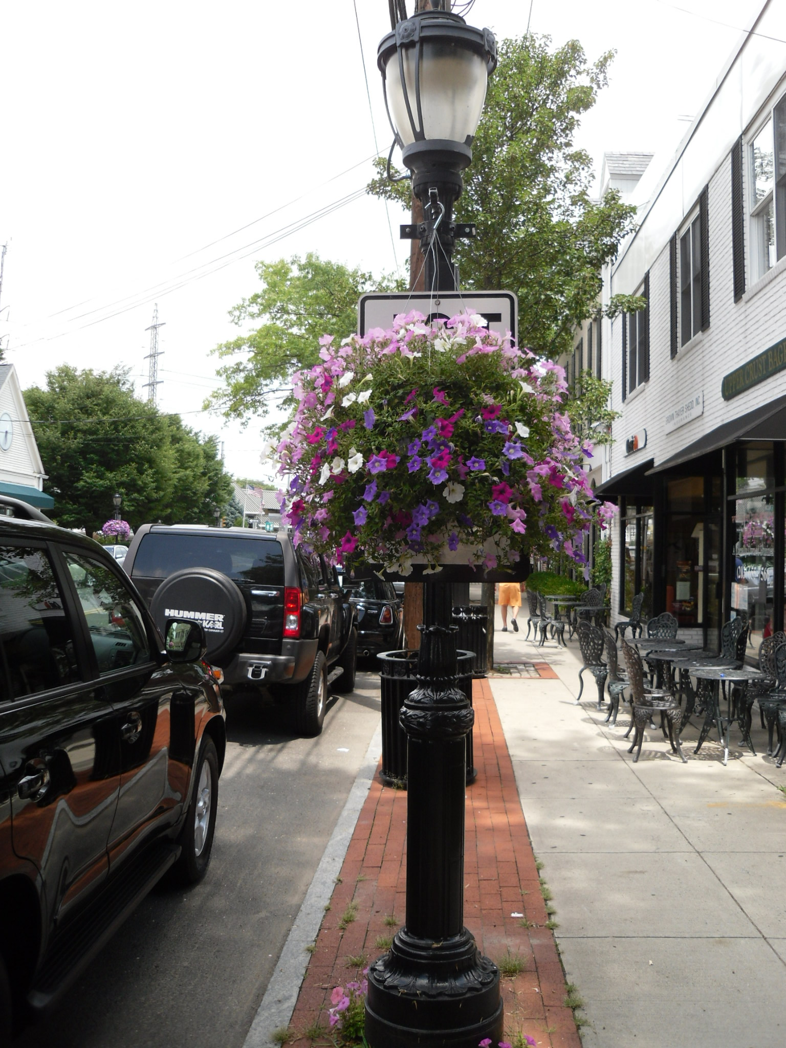 Main street of Darien, Connecticut.